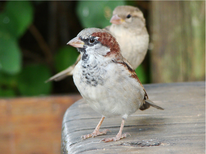 A male and a female sparrow